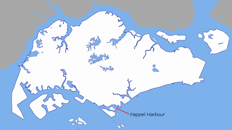 Authored by SpLoT(gallery)